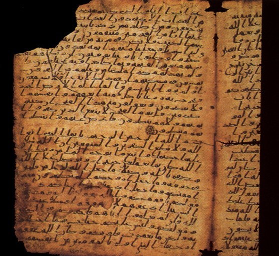 An Early Qur'anic Manuscript (First half of the 1st century Hegira). Sūrah al-Sajda: verse number 20 to Sūrah al-Ahzāb: verse number 6. Script: Hijazi. Location: Maktabat al-Jami‘ al-Kabir, Sanaa (Yemen).